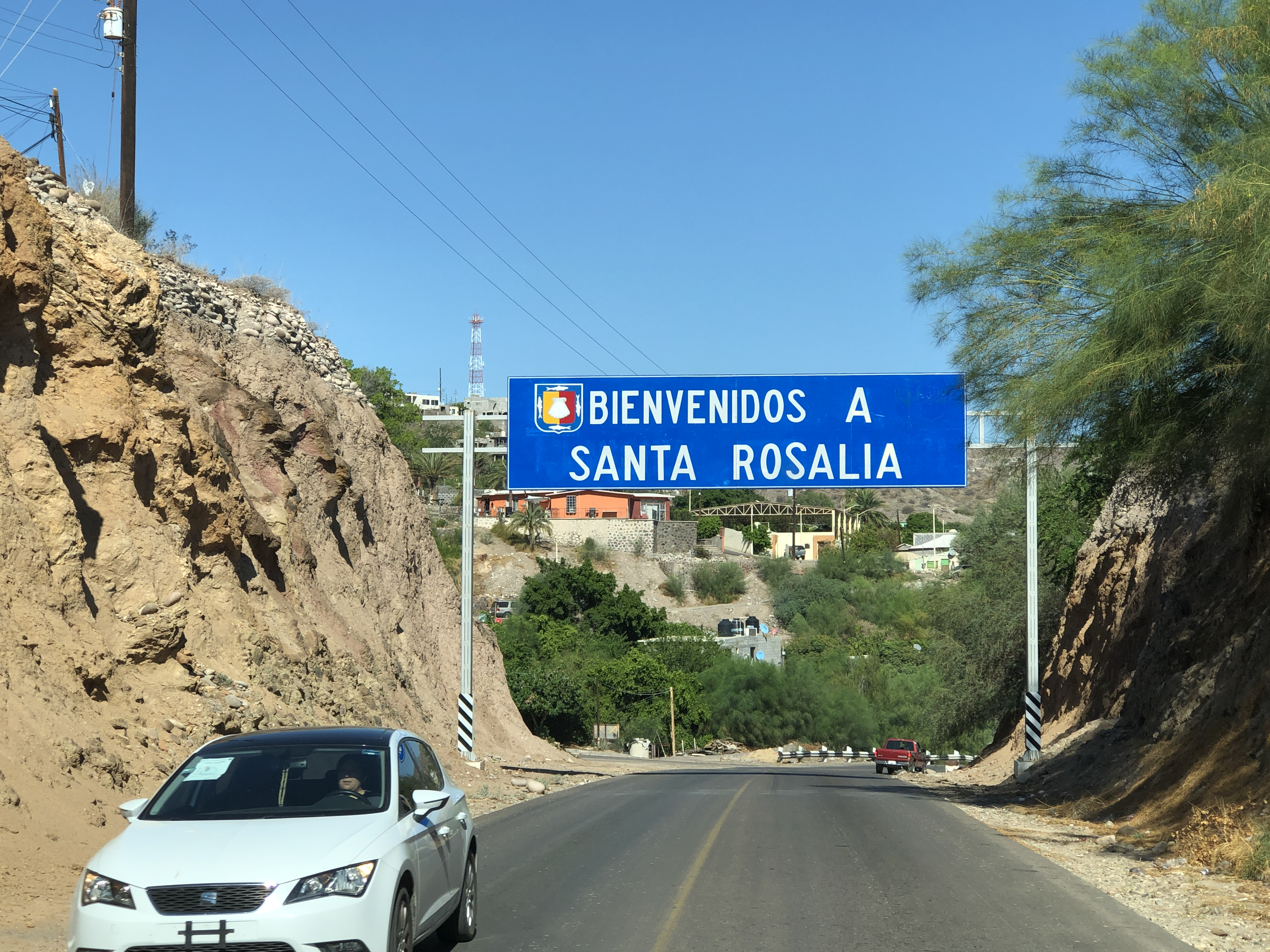 Entrance to Santa Rosalía